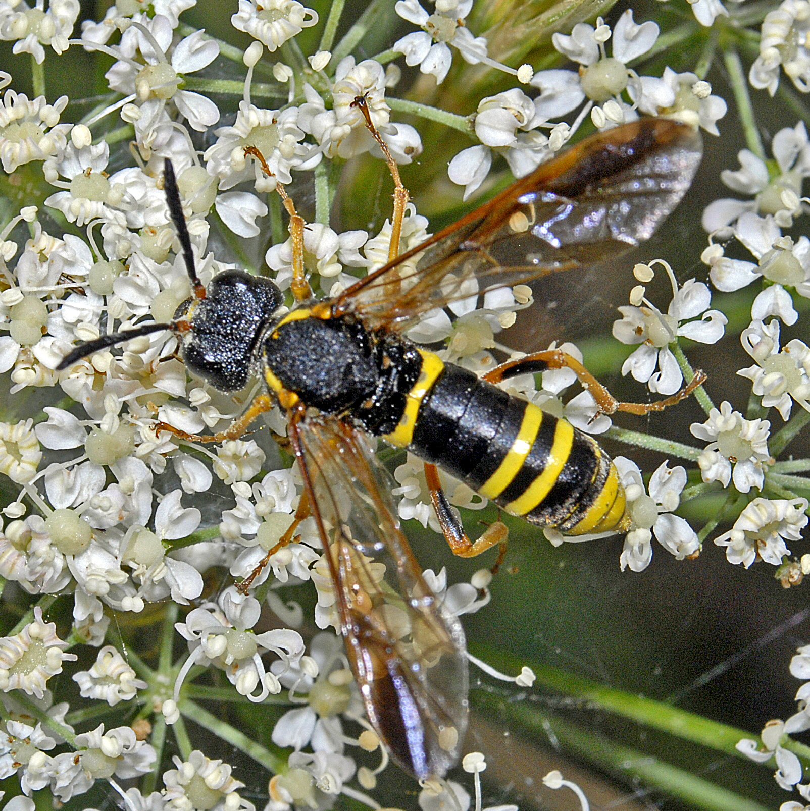 Female of Tenthredo vespa. Bousson, Torino, Italy